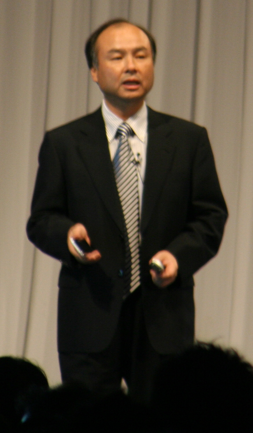 Softbank Summit 2008 Keynote